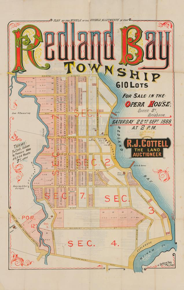 Estate Map of the unsold allotments of the Redland Bay township, Queensland, 1888 Estate map of the Redland Bay township showing plan of 610 allotments for auction by R. J. Cottrell at the Opera House, Queen Street, Brisbane, on the 22nd September, 1888. The allotments covered the area between the Esplanade and Moogurrapum Creek.